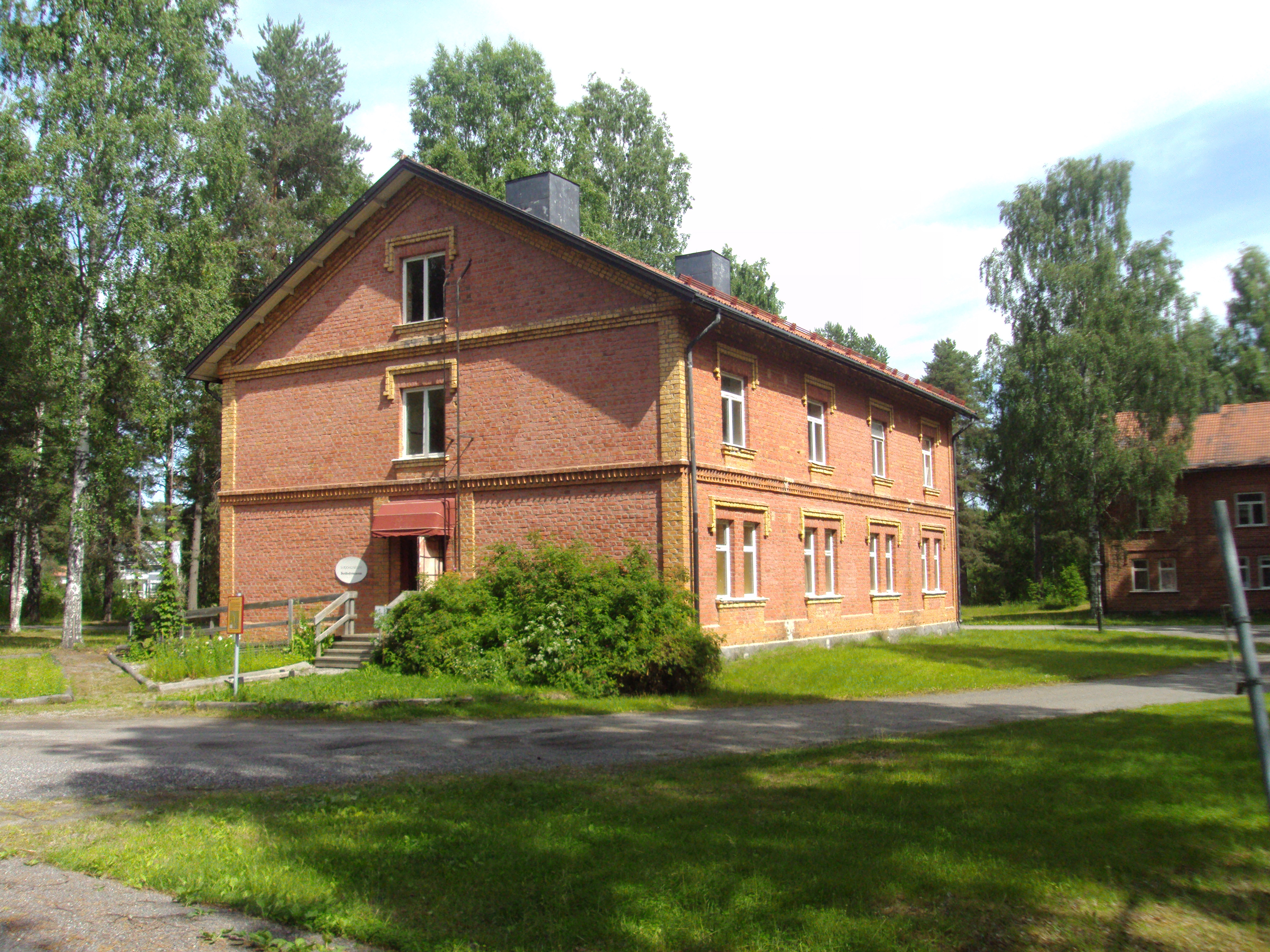 Old workers' house at Sandslån.